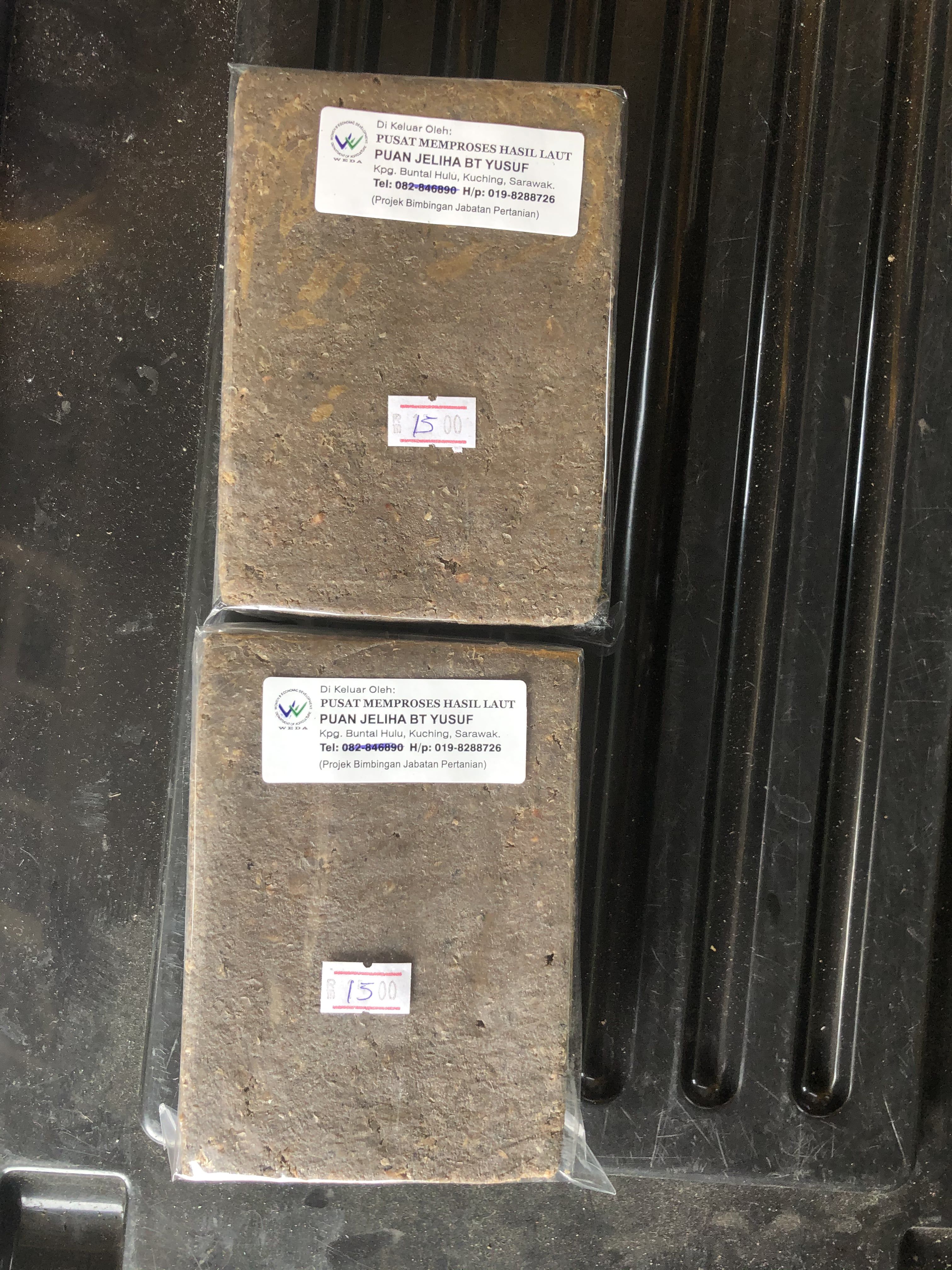 Belacan